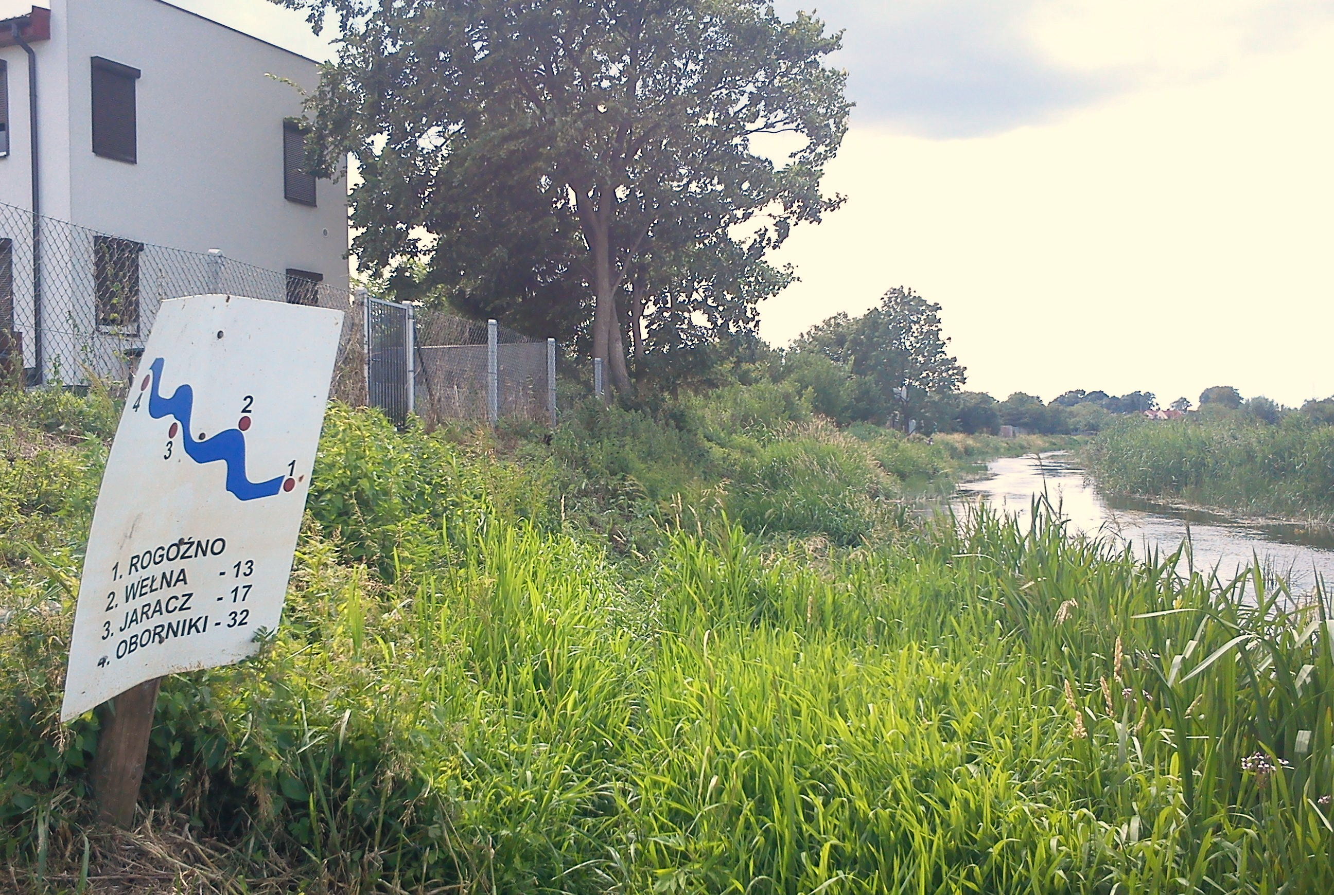 Rogoźno, Wełna river. Canoe trail. Information board.